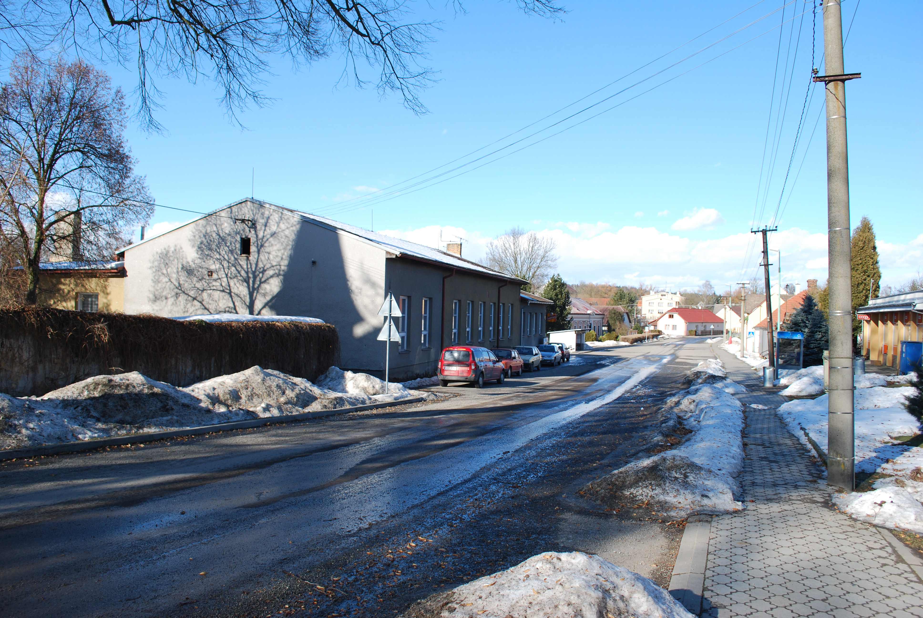 Hlavatce village in n Tábor District, Czech Republic This photograph was taken within the scope of the 'Czech Municipalities Photographs' grant. - Google Maps - Google Earth